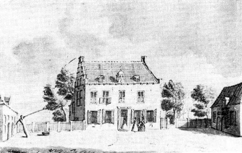 Havezate Boskamp, Boskamp, Olst-Wijhe, Salland, Overijssel, The Netherlands